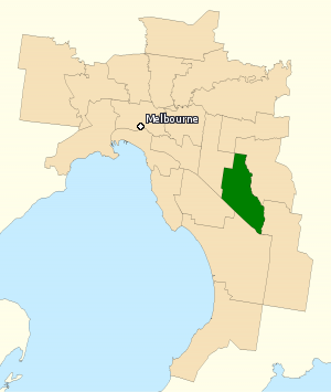 This image incorporates data that is: © Commonwealth of Australia (Australian Electoral Commission) 2009 Division of Bruce 2010